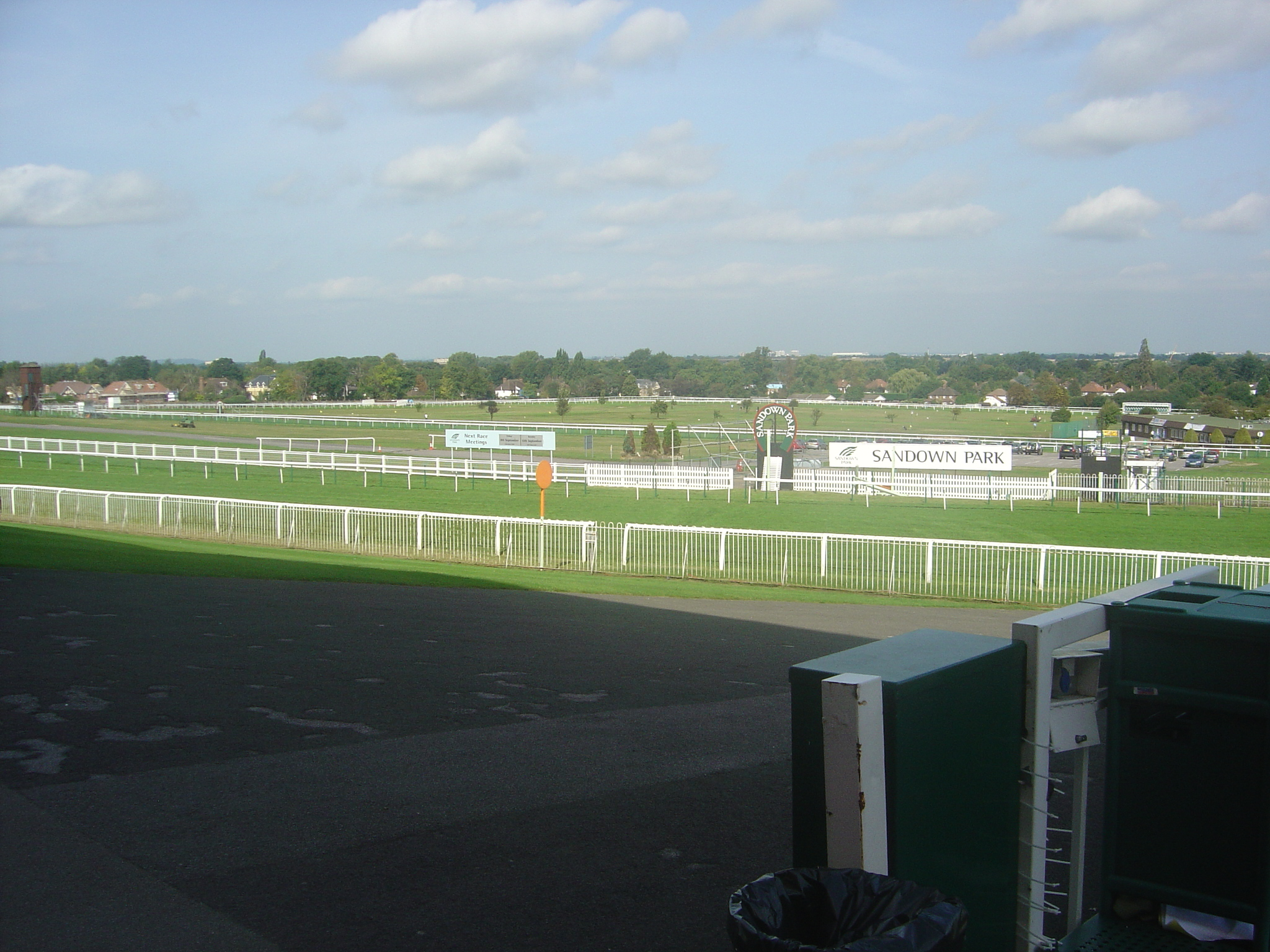 The winning line at Sandown Park viewed from the stadium